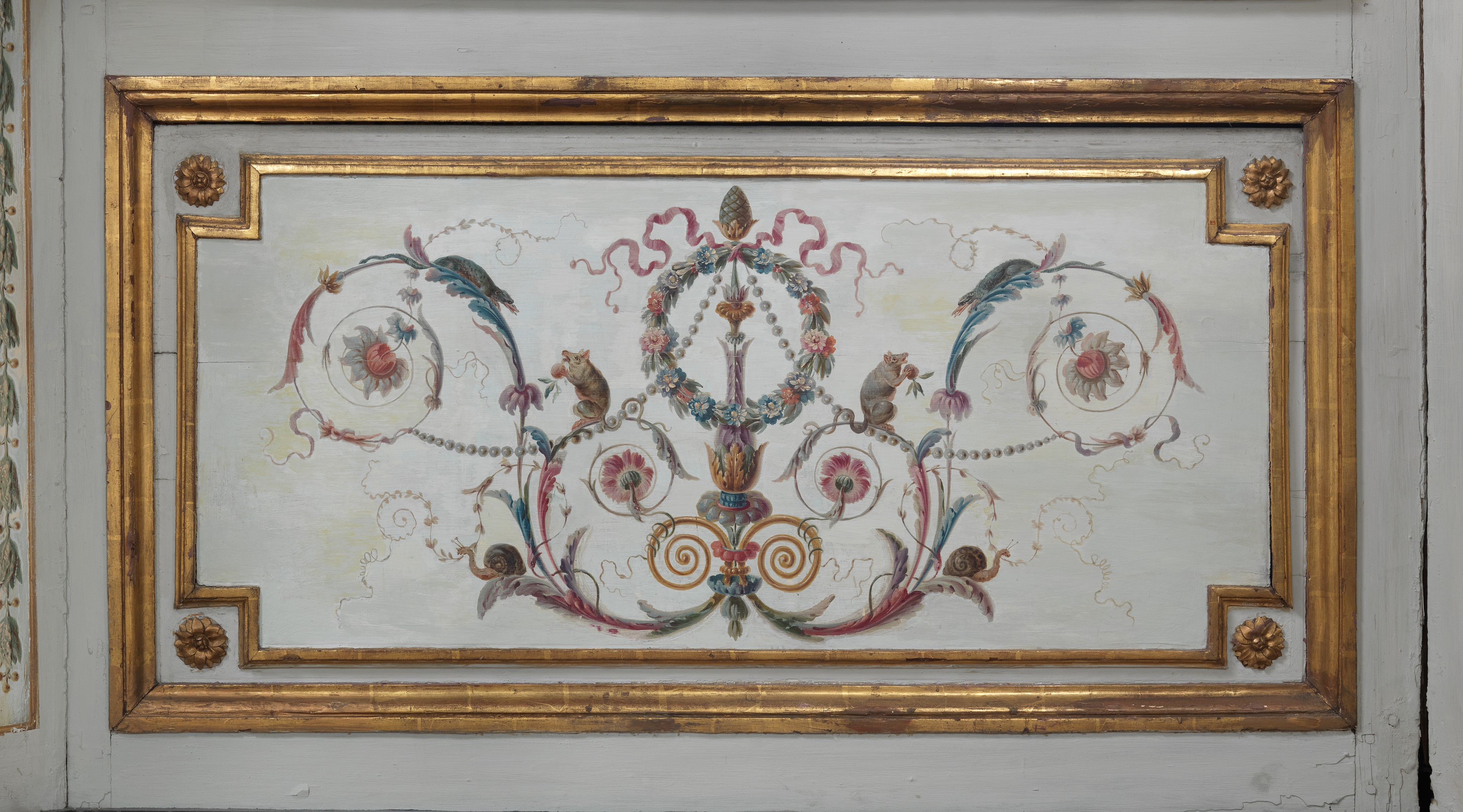 French, Paris; Period room; Woodwork